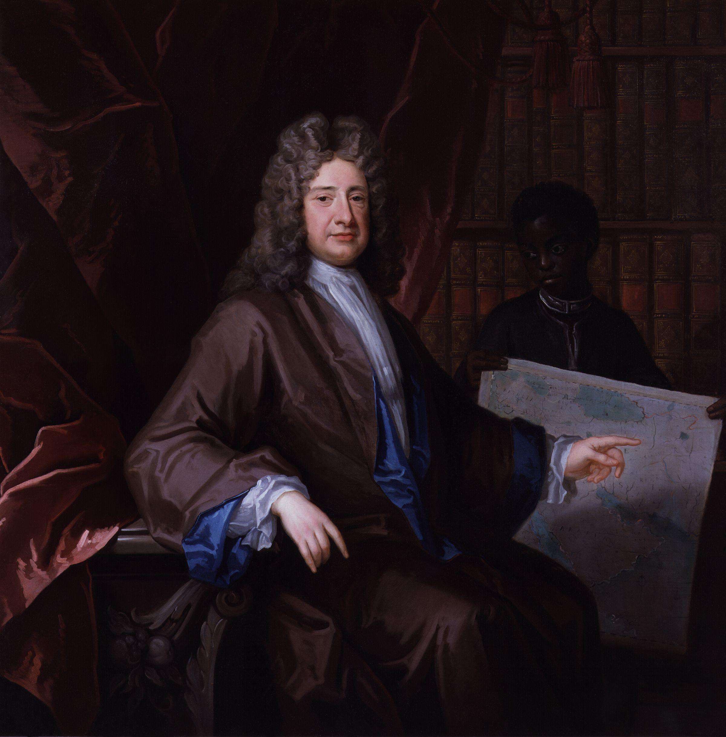 All images in this batch have an unknown author, but there is strong evidence it was first published before 1923 (based mainly on the NPG's estimated date of the work).